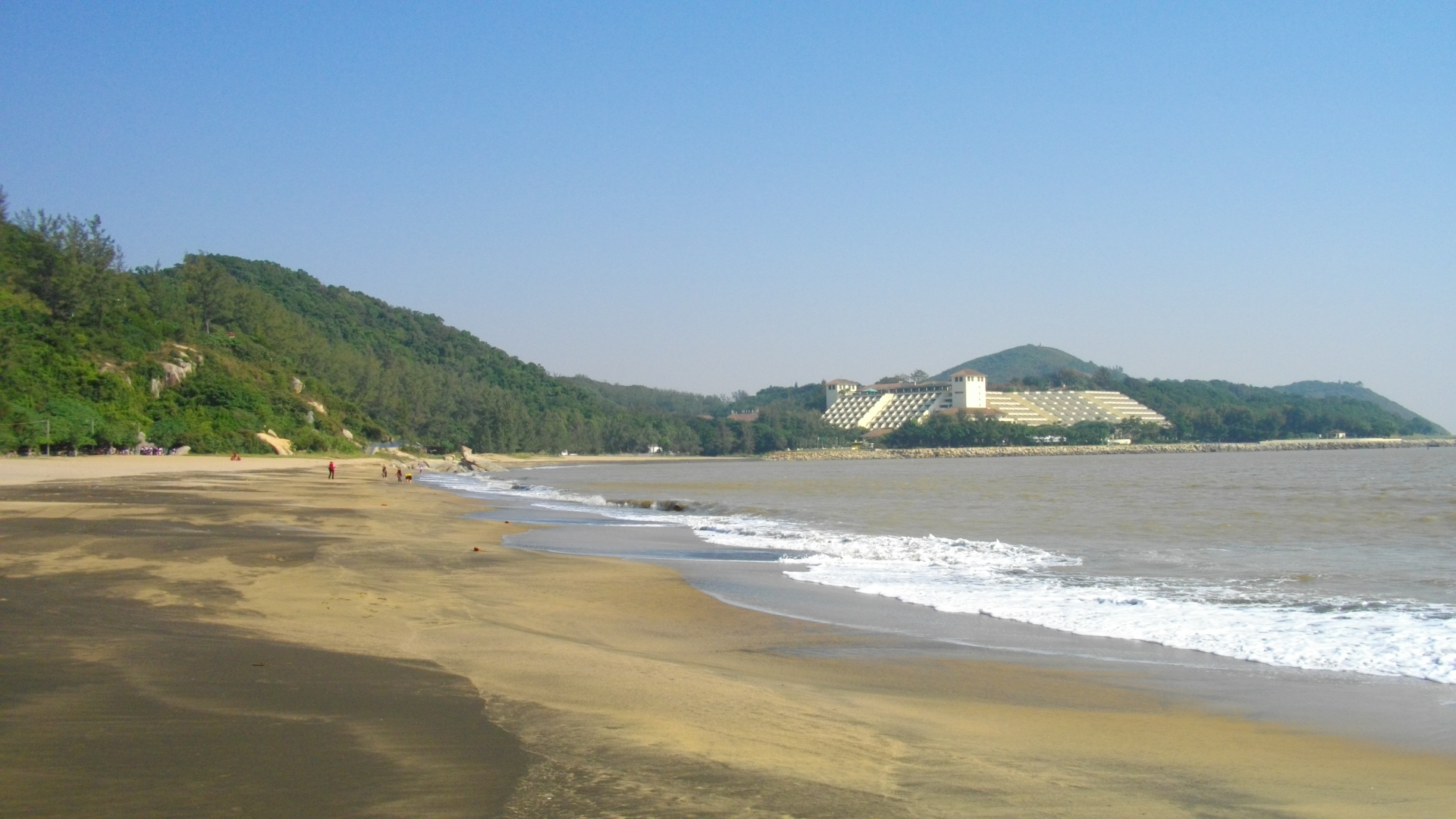 Hac Sa Beach